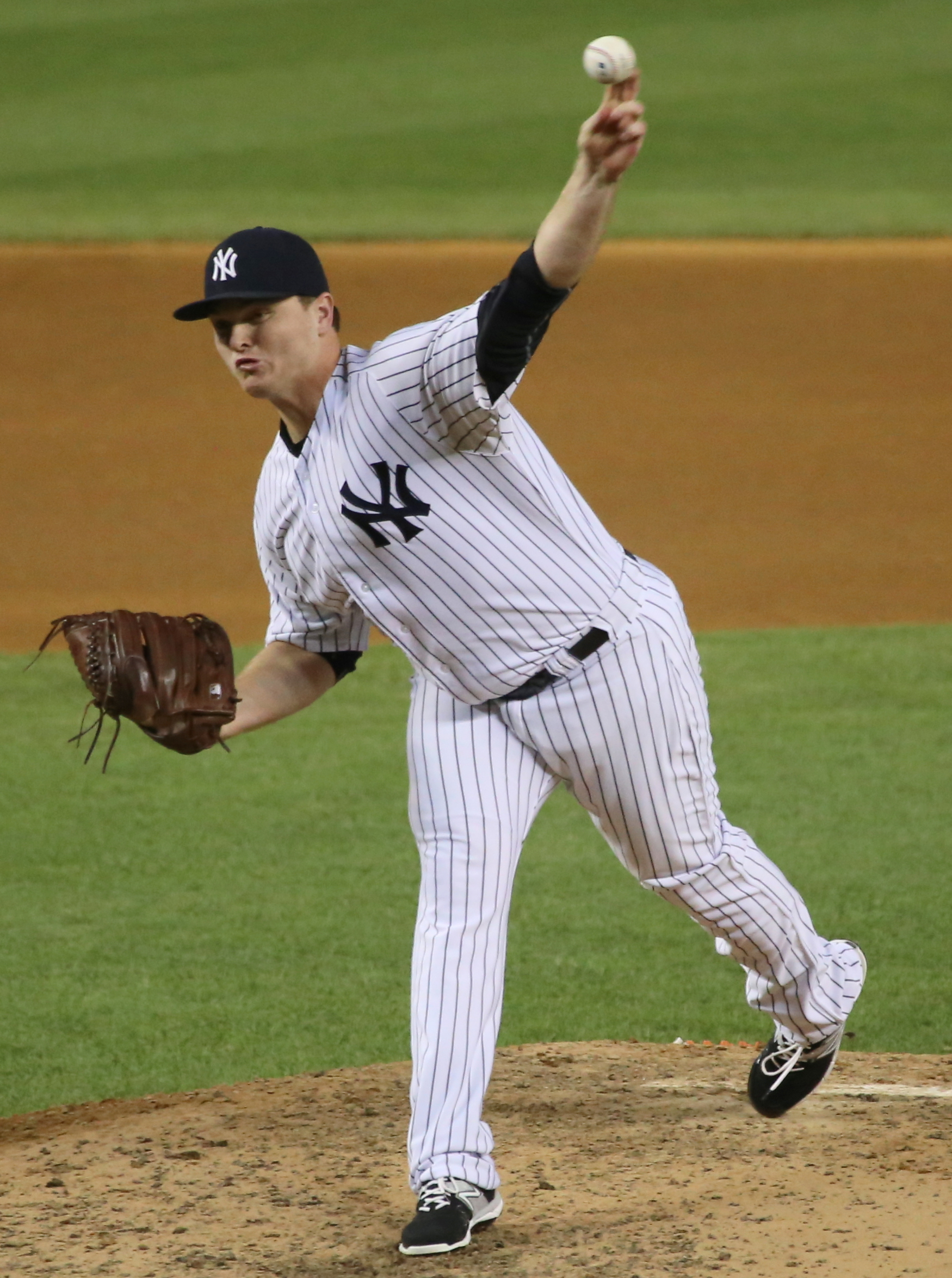 Justin Wilson